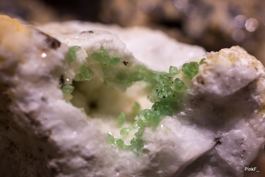 Green adamite from kamariza Lavrio Greece